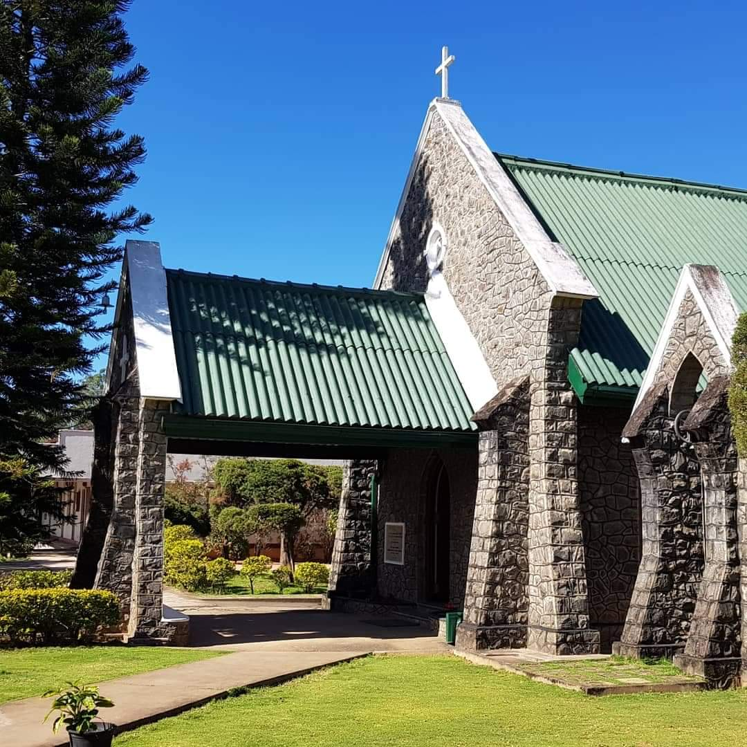 College Chapel